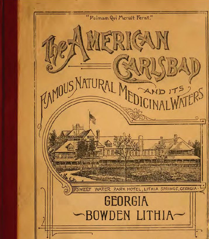 Out of copyright 1890 book cover